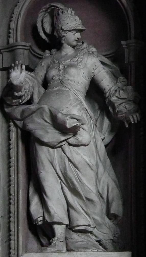 Statue of Matilda of Tuscany.